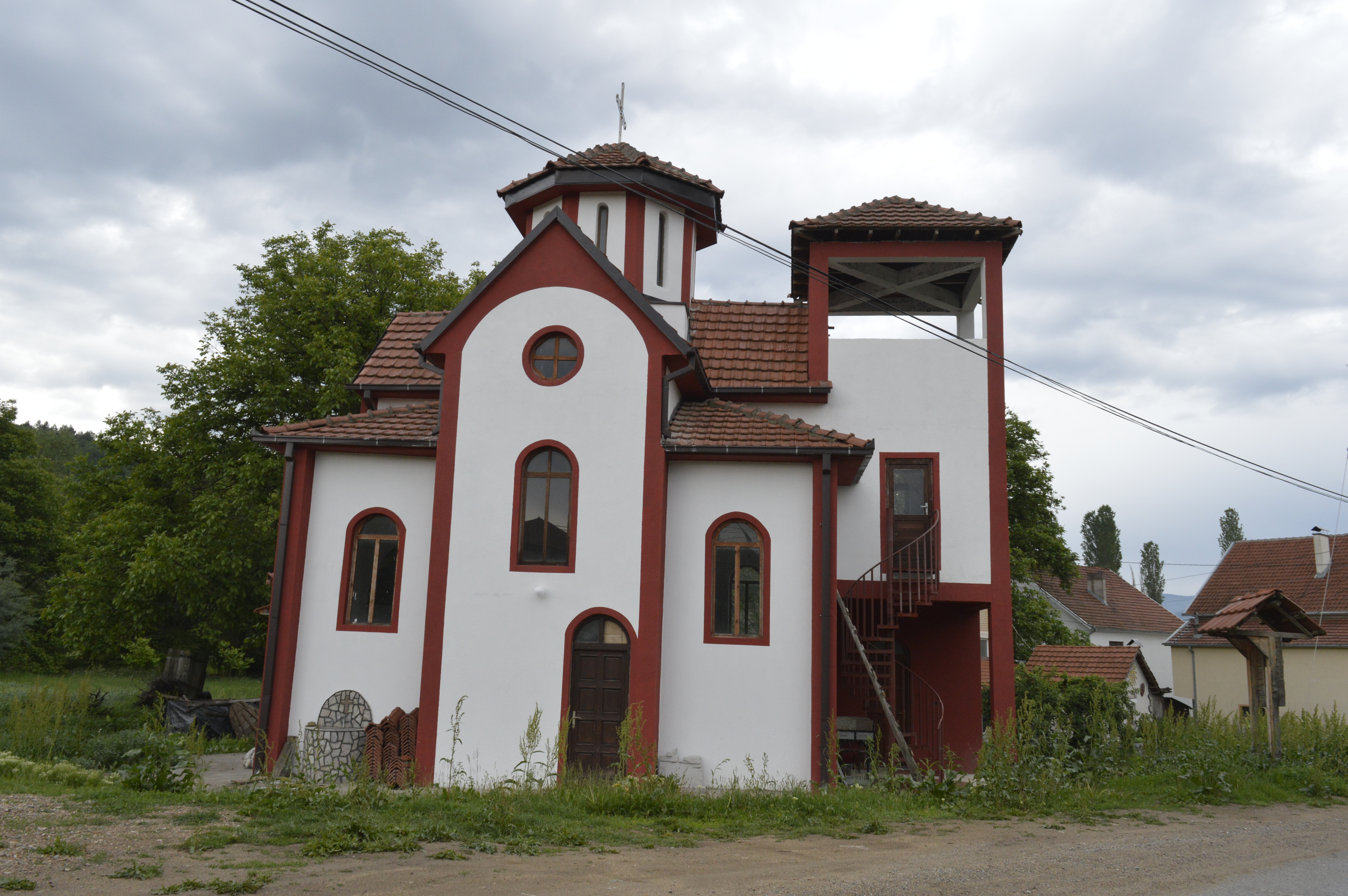 View of the St. Demetrious Church in the village Gabrovo